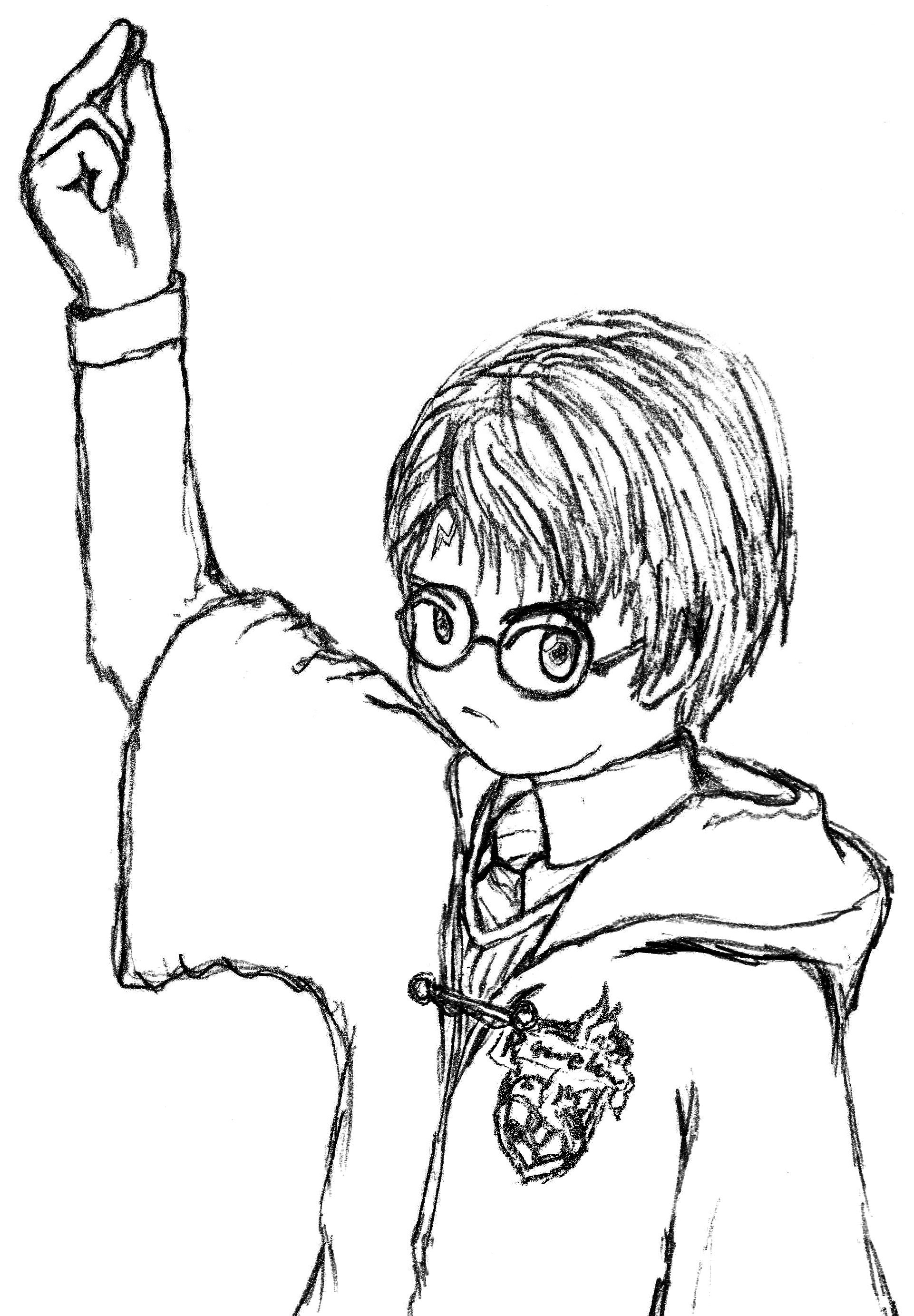 Harry Potter fan art.